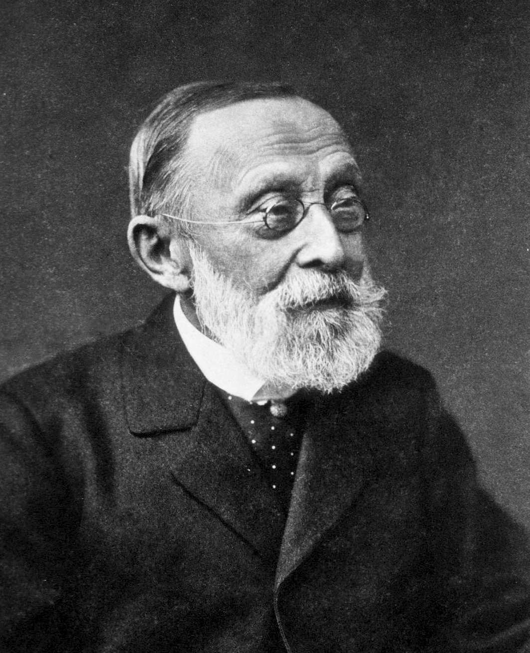 Rudolf Virchow